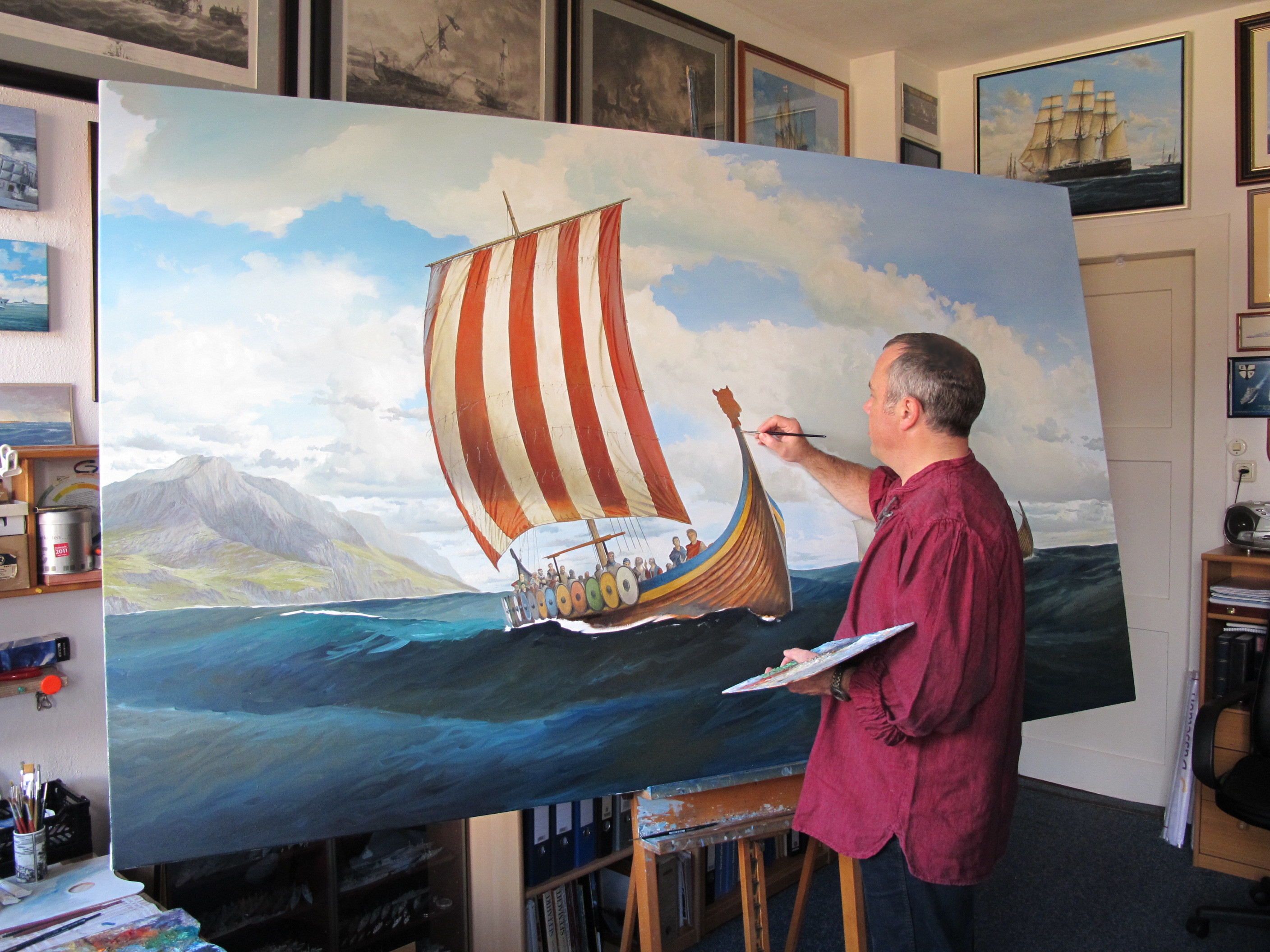 Naval artist Olaf Rahardt, Rudolstadt, Thuringia (Germany), in his studio. The artist at work.